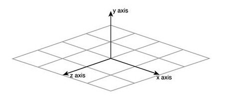 sistem 3D de coordonate